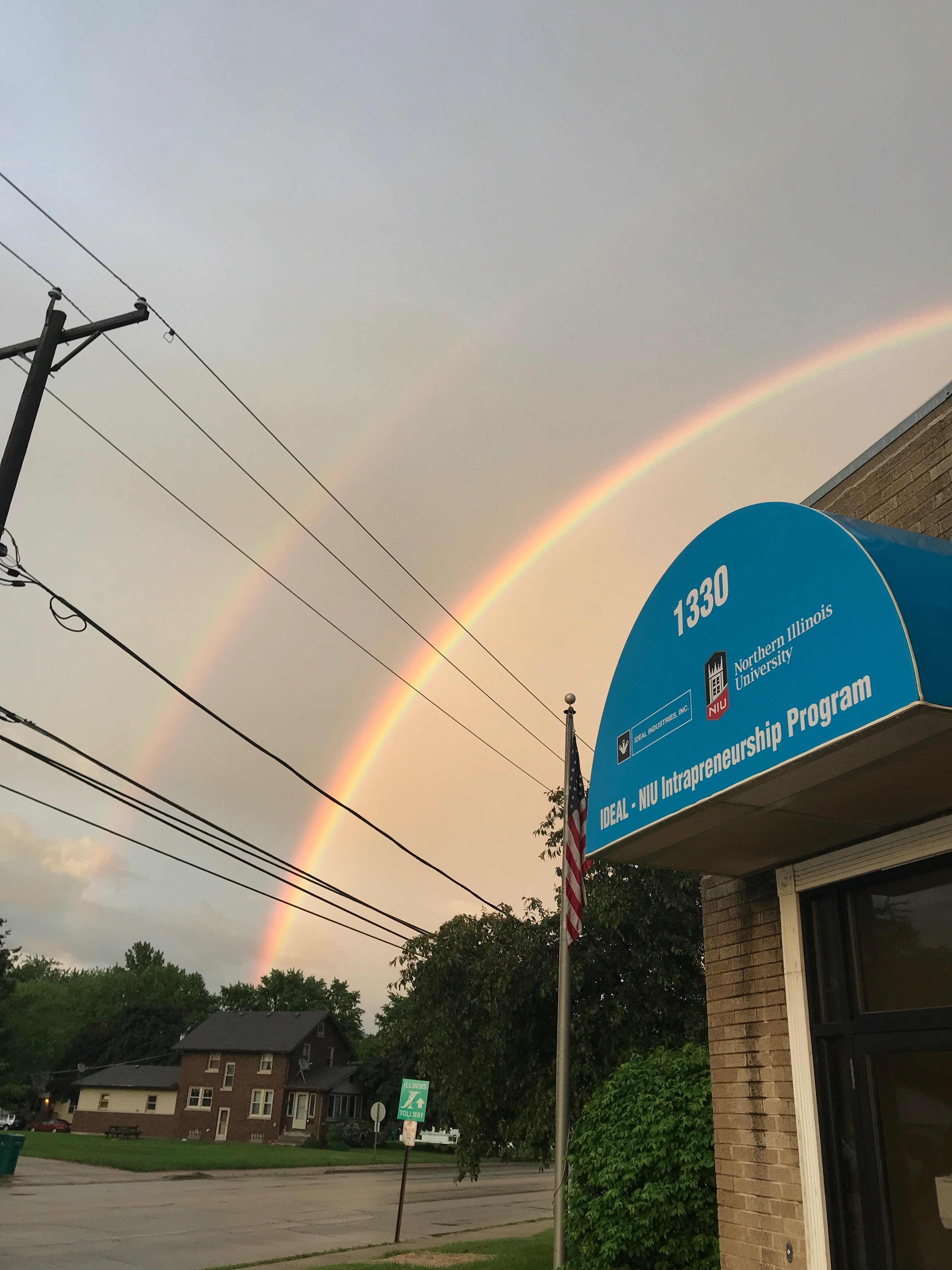 Location in DeKalb, IL.